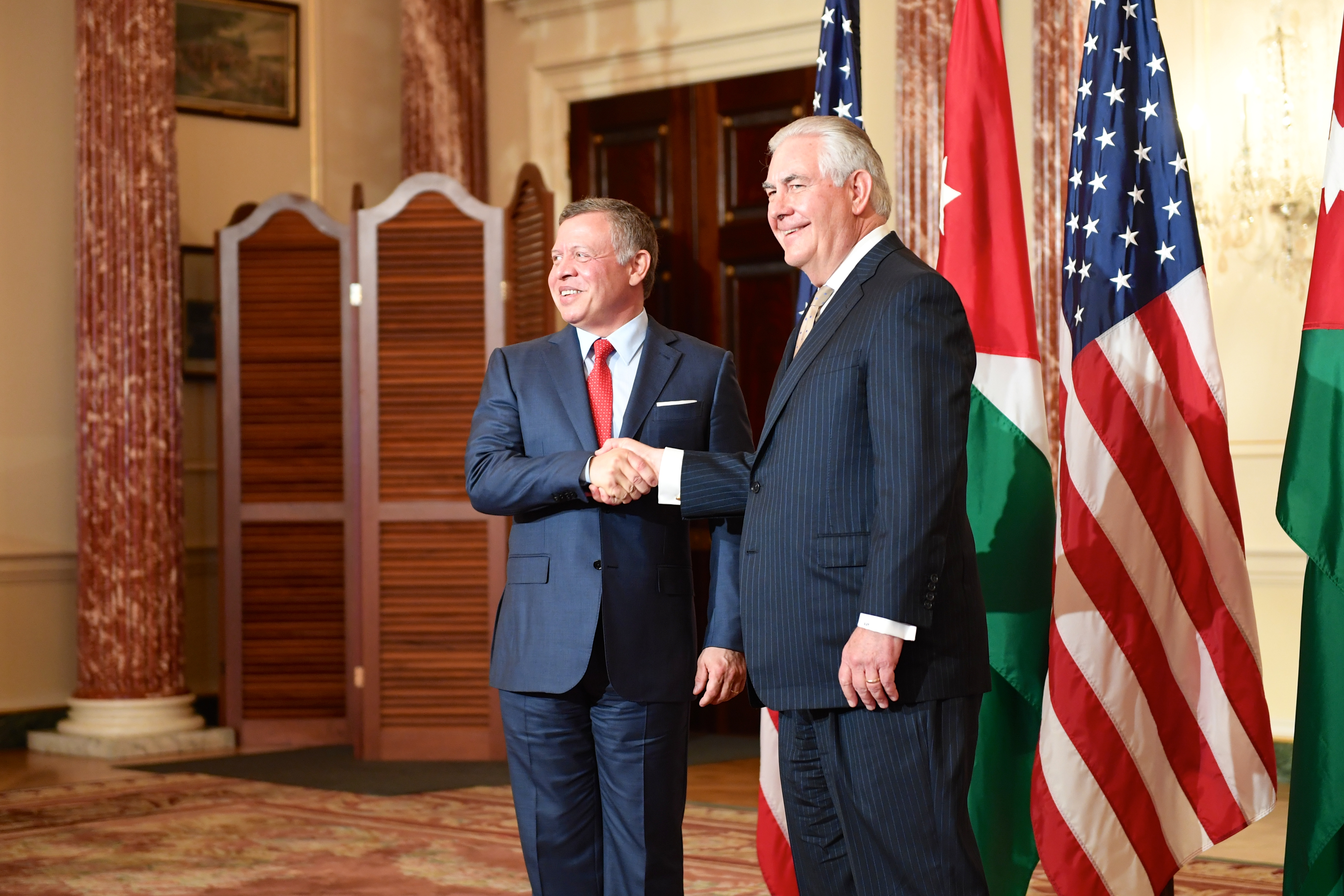 U.S. Secretary of State Rex Tillerson poses for a photo with Jordanian King Abdullah II Ibn Al Hussein before a working luncheon at the U.S Department of State in Washington, D.C. on April 4, 2017. [State Department photo/ Public Domain]